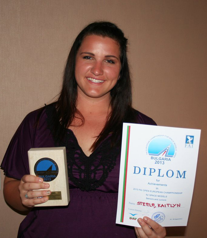 Steele accepting an award in the 2013 ESMC competition in Bulgaria